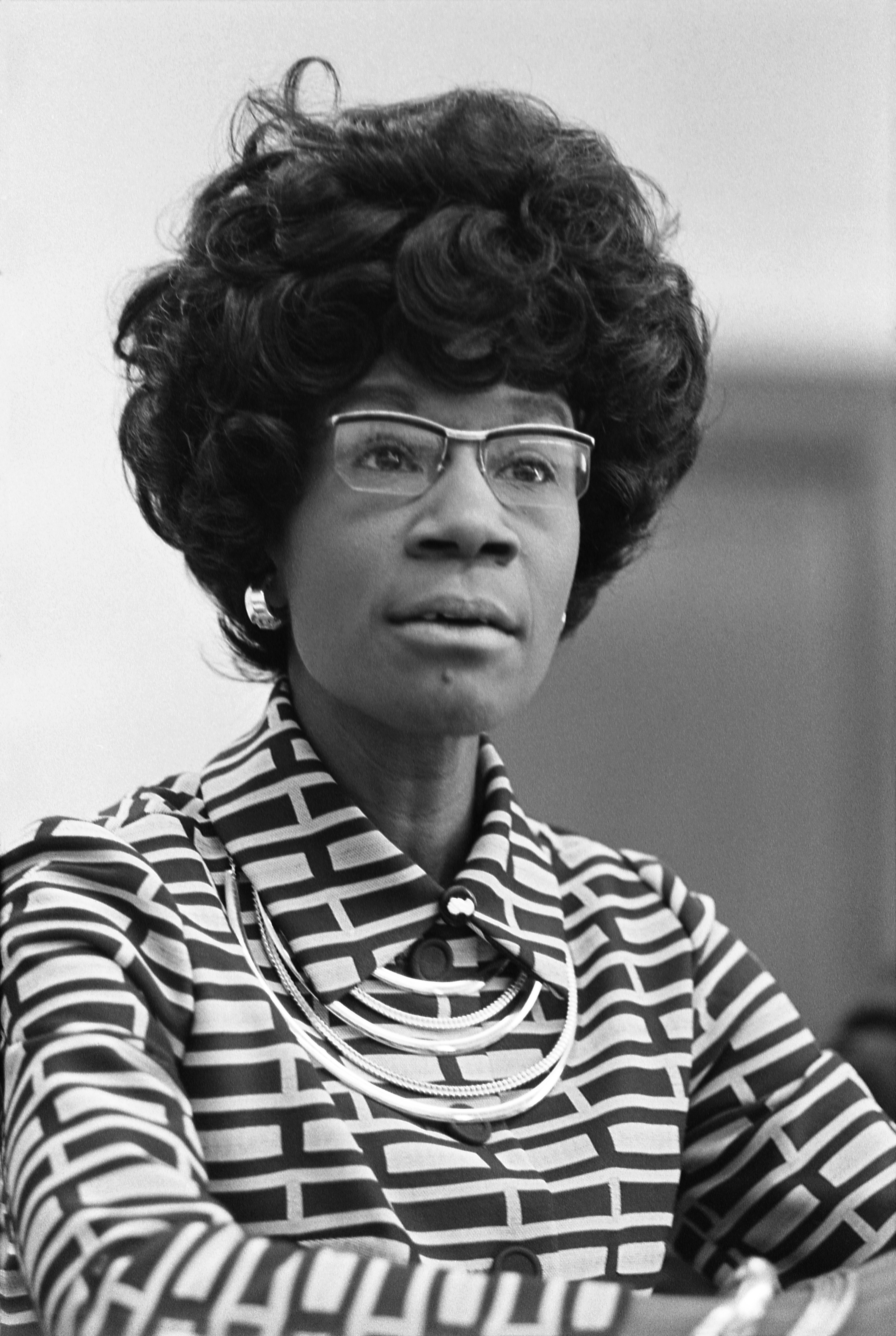 Shirley Chisholm, future member of the U.S. House of Representatives (D-NY), announcing her candidacy.